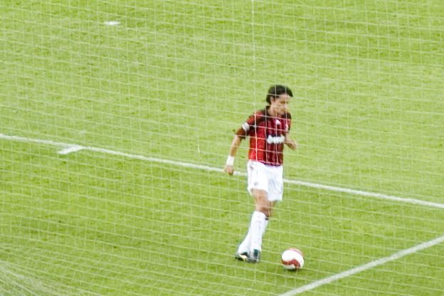 Filippo Inzaghi, AC Milan footballerSiena: Pippo Inzaghi